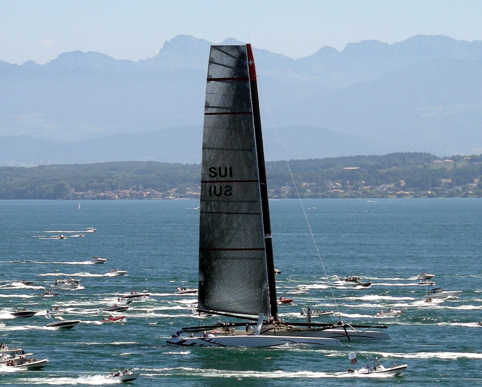 Alingi 2009, Lake of Geneva, near Nyon